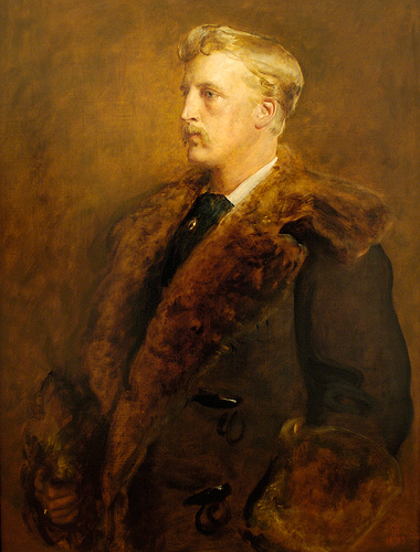 The Marquess of Lorne